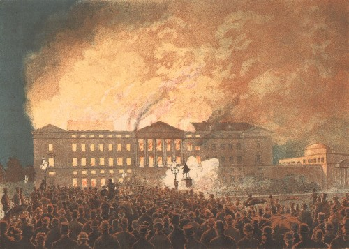 Fire of 2md Christiansborg Palace in Copenahgen, Denmark